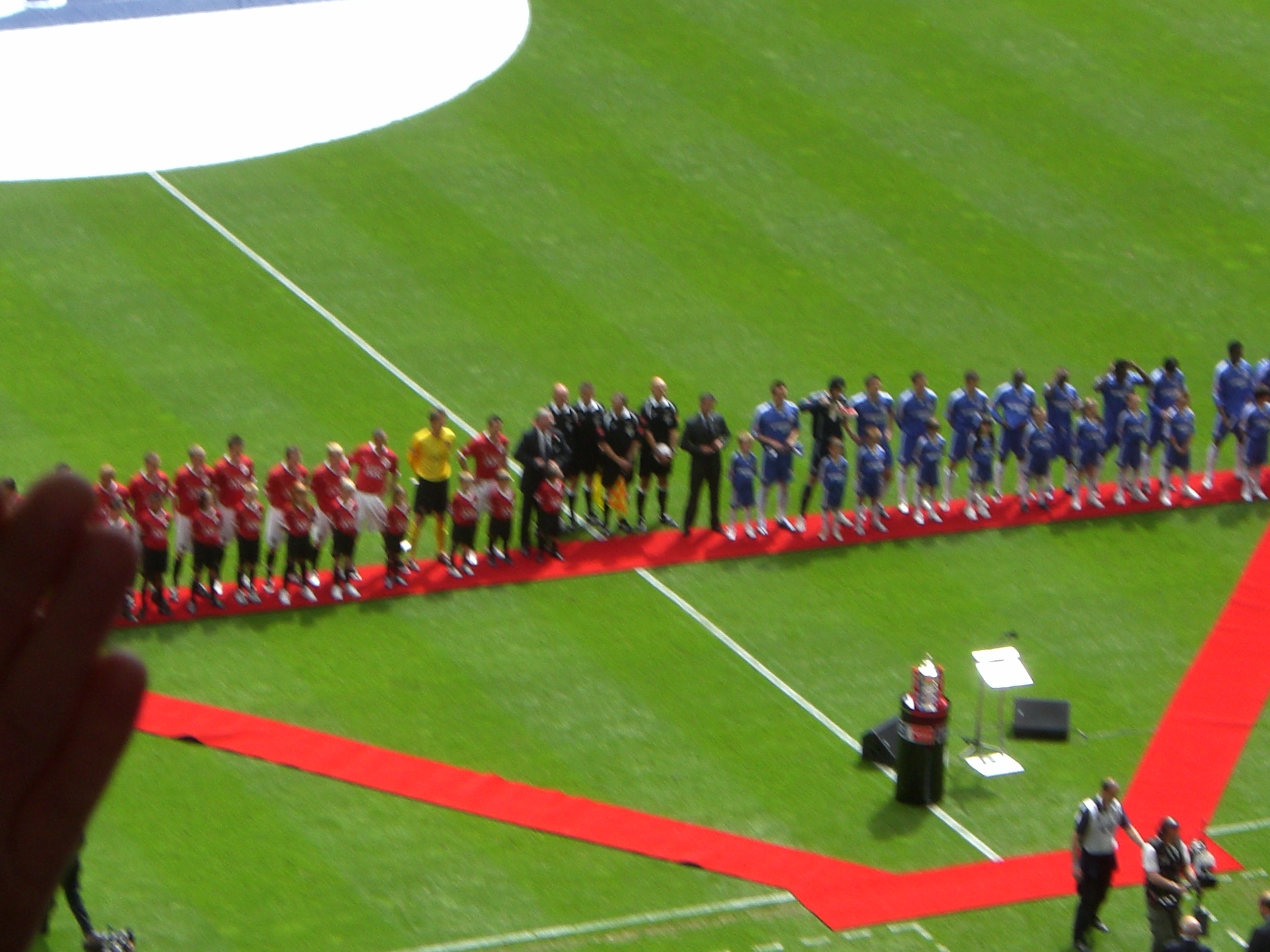 FA-cup final at New Wembley: Chelsea vs Man. United 0-1 a.e.t.